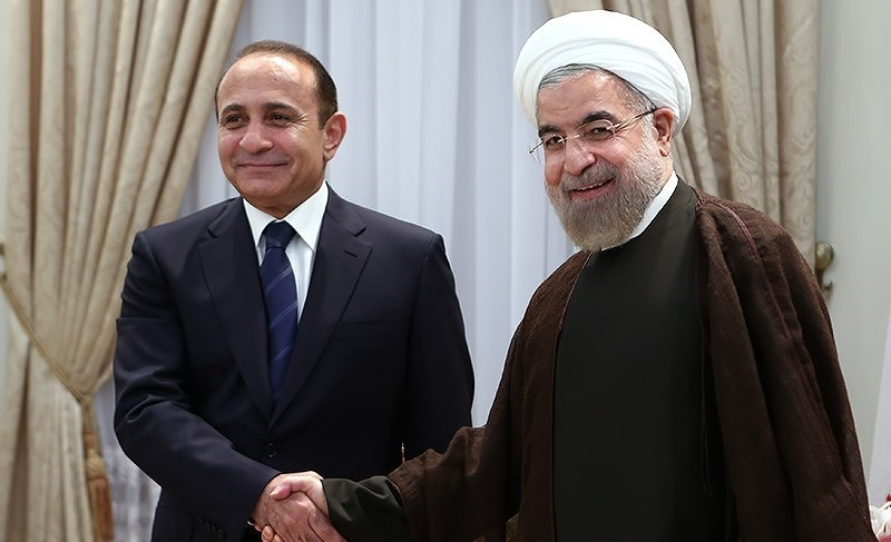 President Rouhani meeting with Armenian Prime Minister Hovik Abrahamyan in Saadabad Palace